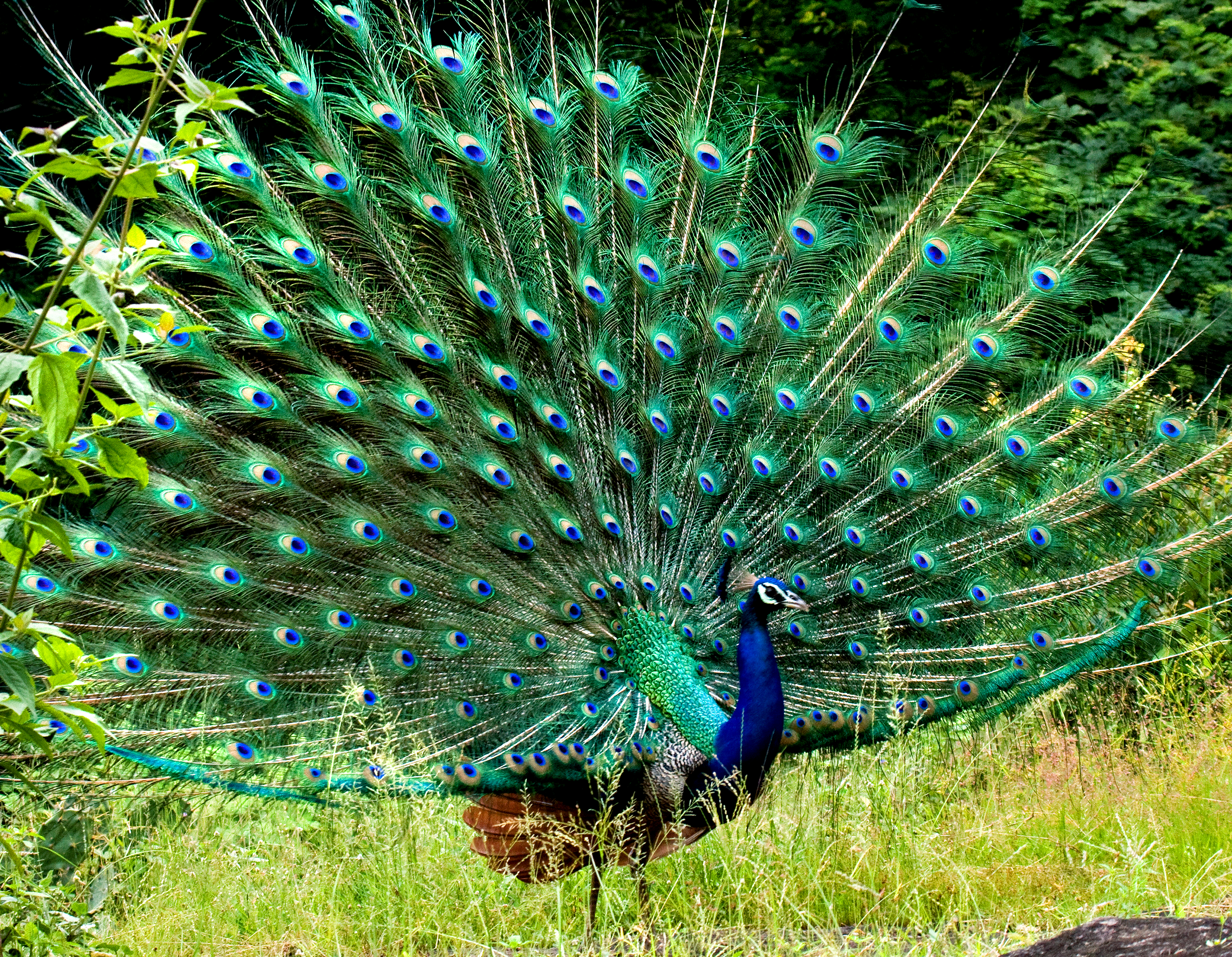 Indian Peacock or Blue Peafowl (Pavo cristatus) displaying. Photo taken from Parambikulam Wildlife Sanctuary.